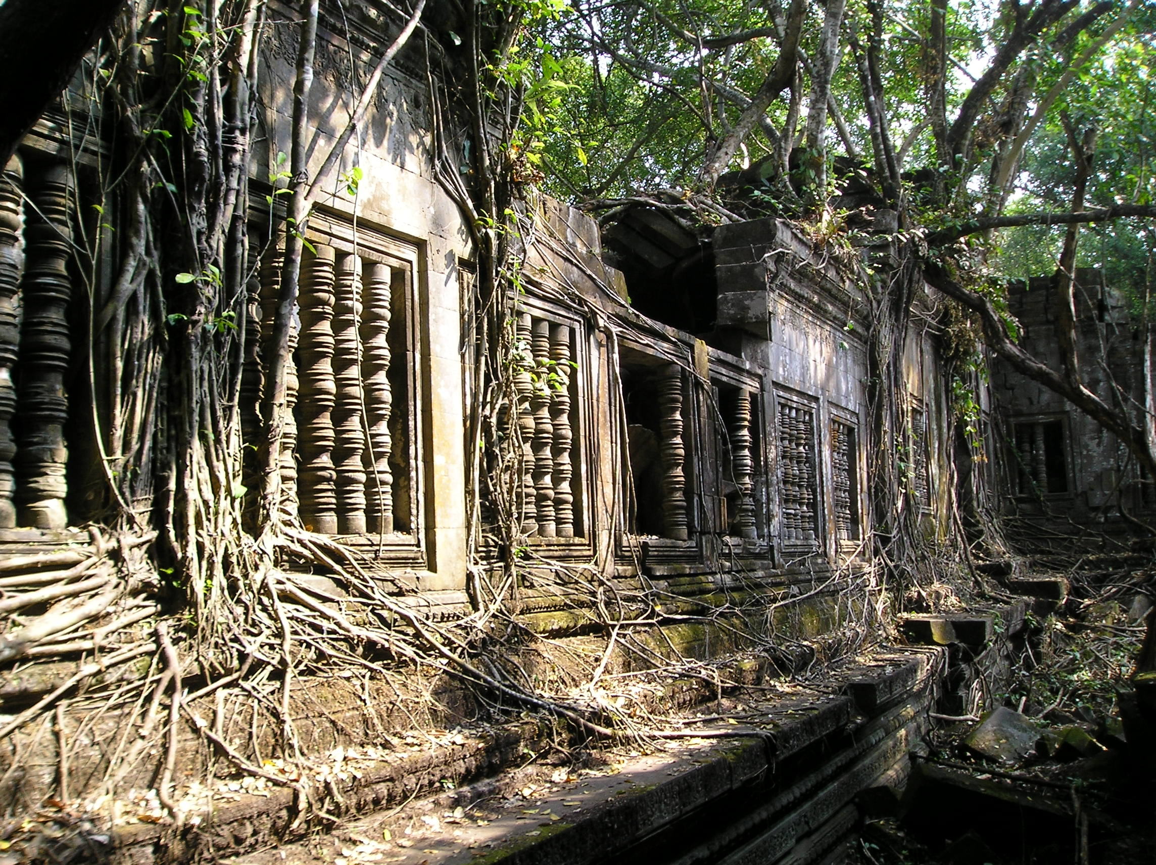 Photo by Writer128